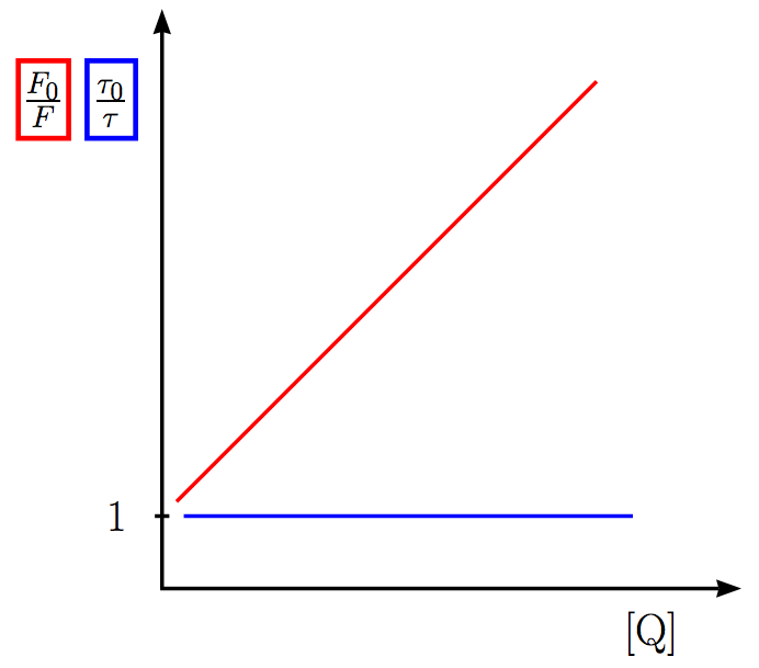 Stern-Volmer-Plot for static Quenching